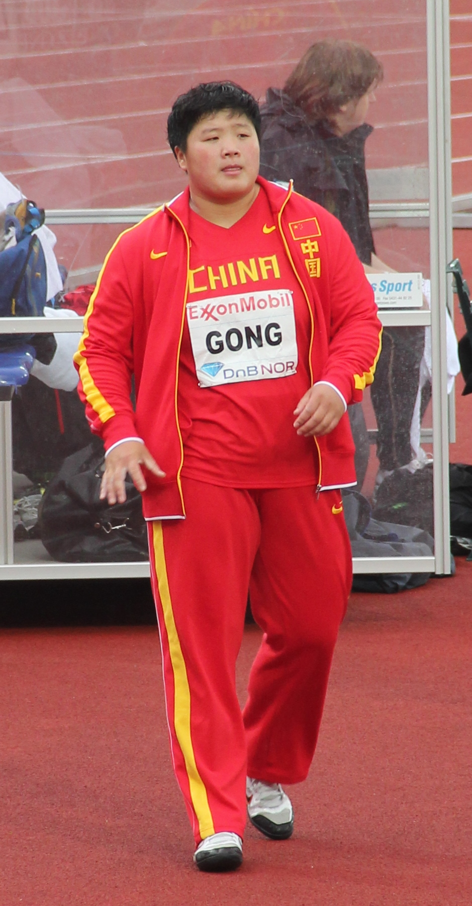 Gong Lijiao at the 2011 Bislett Games